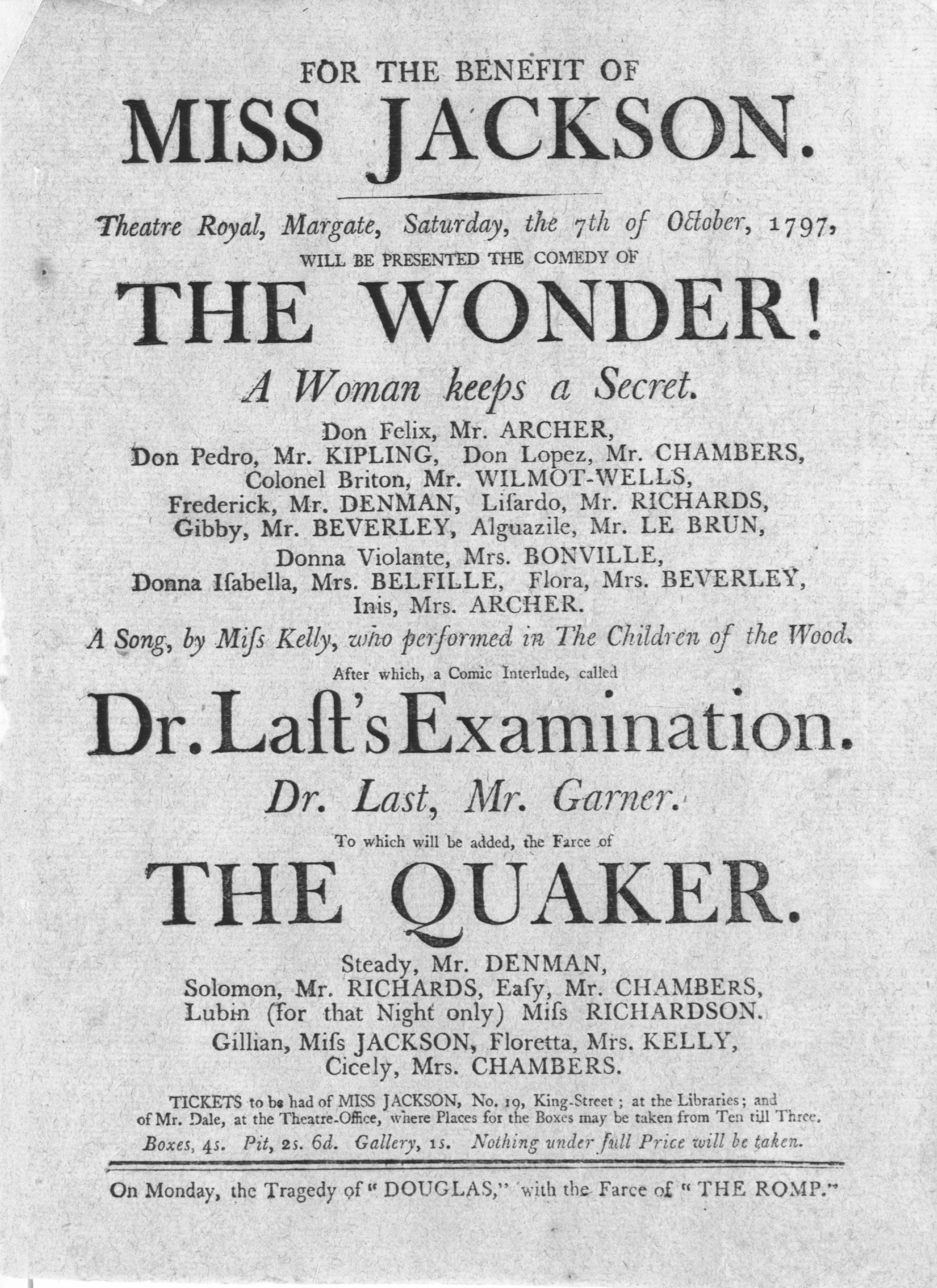 Playbill for a performance of "The Wonder!" and other plays